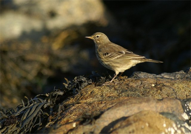 Rock Pipit (Anthus petrosus), Norwick A typical bird of rocky shoreline in Shetland.